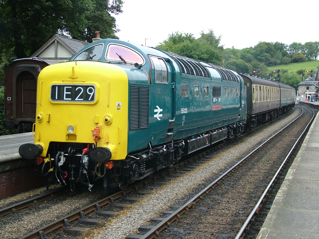 Class 55 no. 55022 is seen after arriving at Grosmont on 18th September 2009 during the NYMR's annual Diesel Gala.